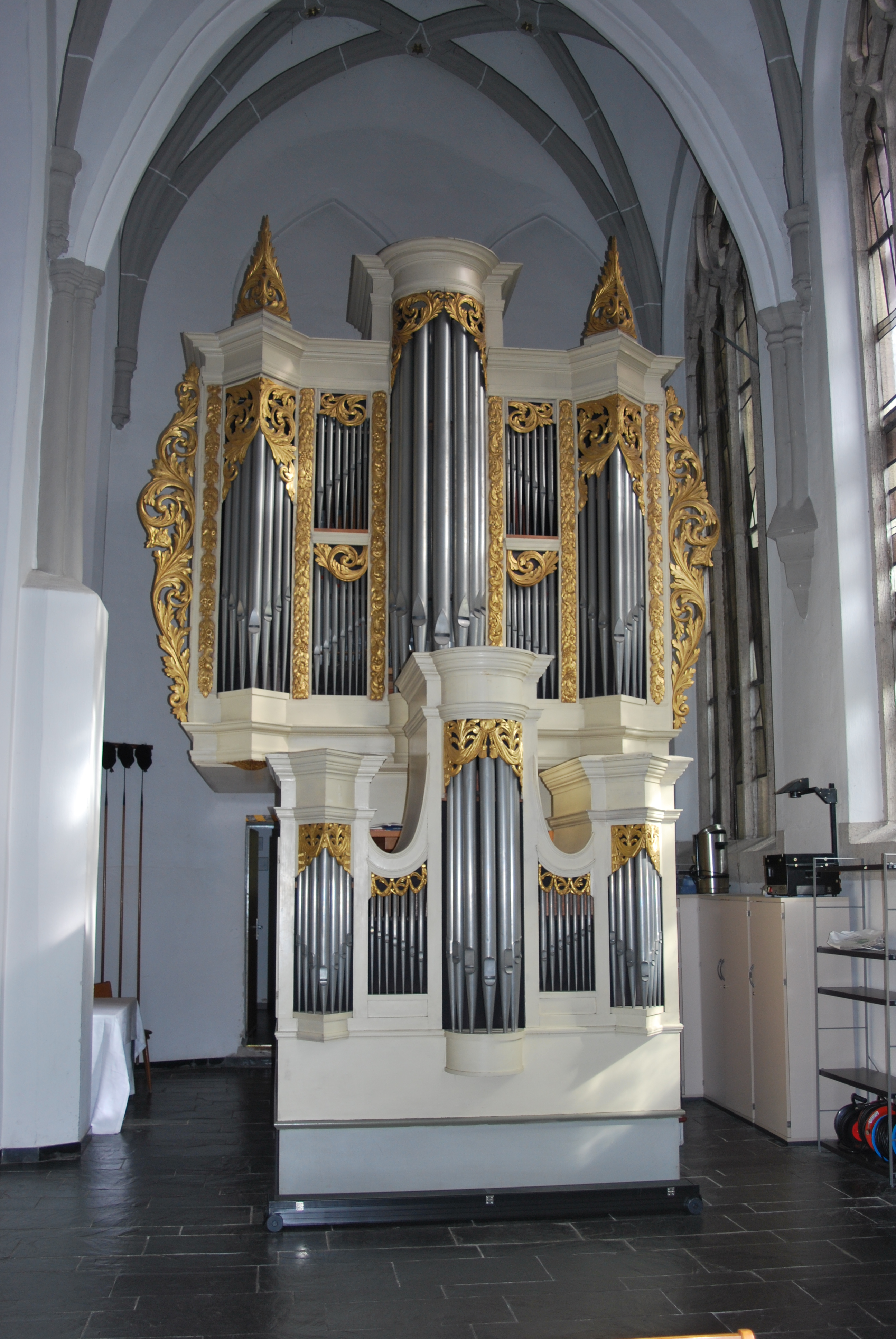 Protestant church Orsoy. Organ.